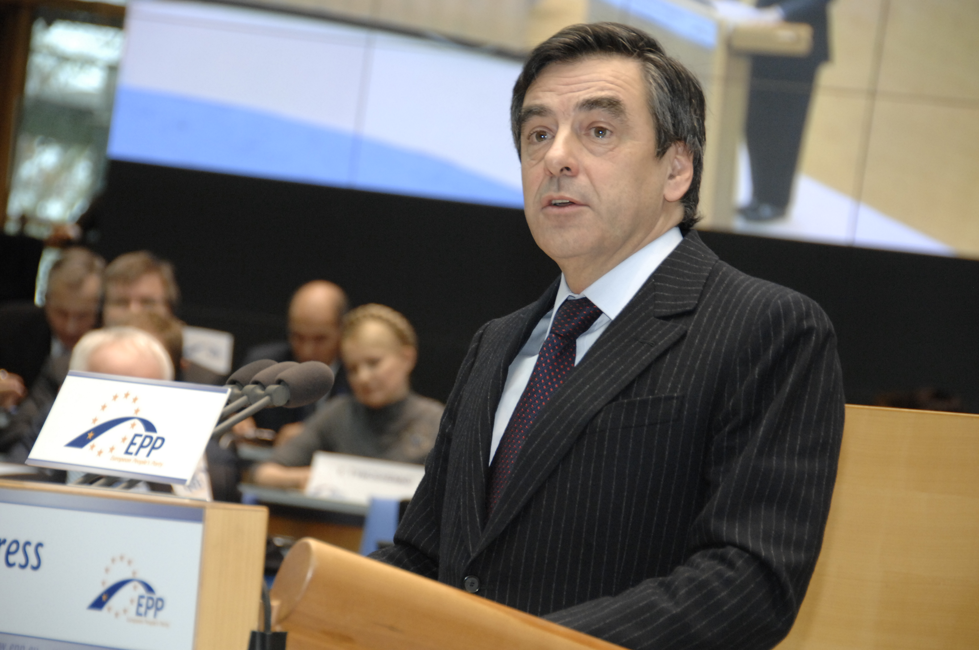 EPP Congress Bonn